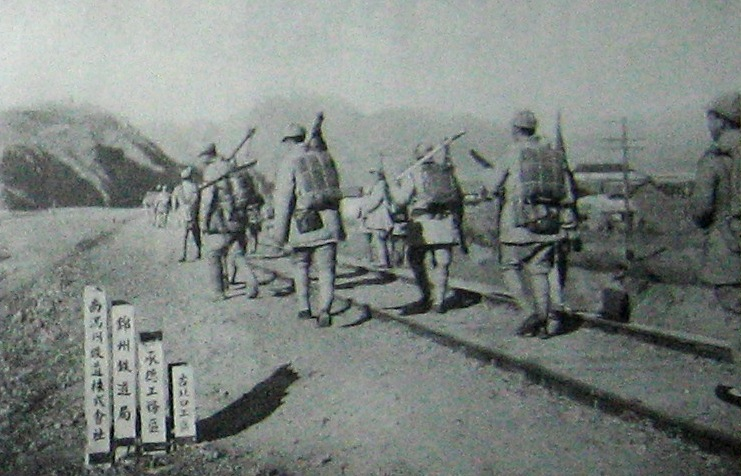 Chinese Communist troops head north to Manchuria(northeast China).晋察冀部队沿铁路北上。